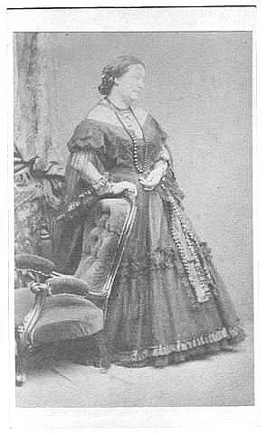 Giulia Grisi, also known as the Marchesa Giulia de Candia (May 22, 1811 in Milan, Italy – November 29, 1869 in Berlin, Germany) was an Italian opera singer.